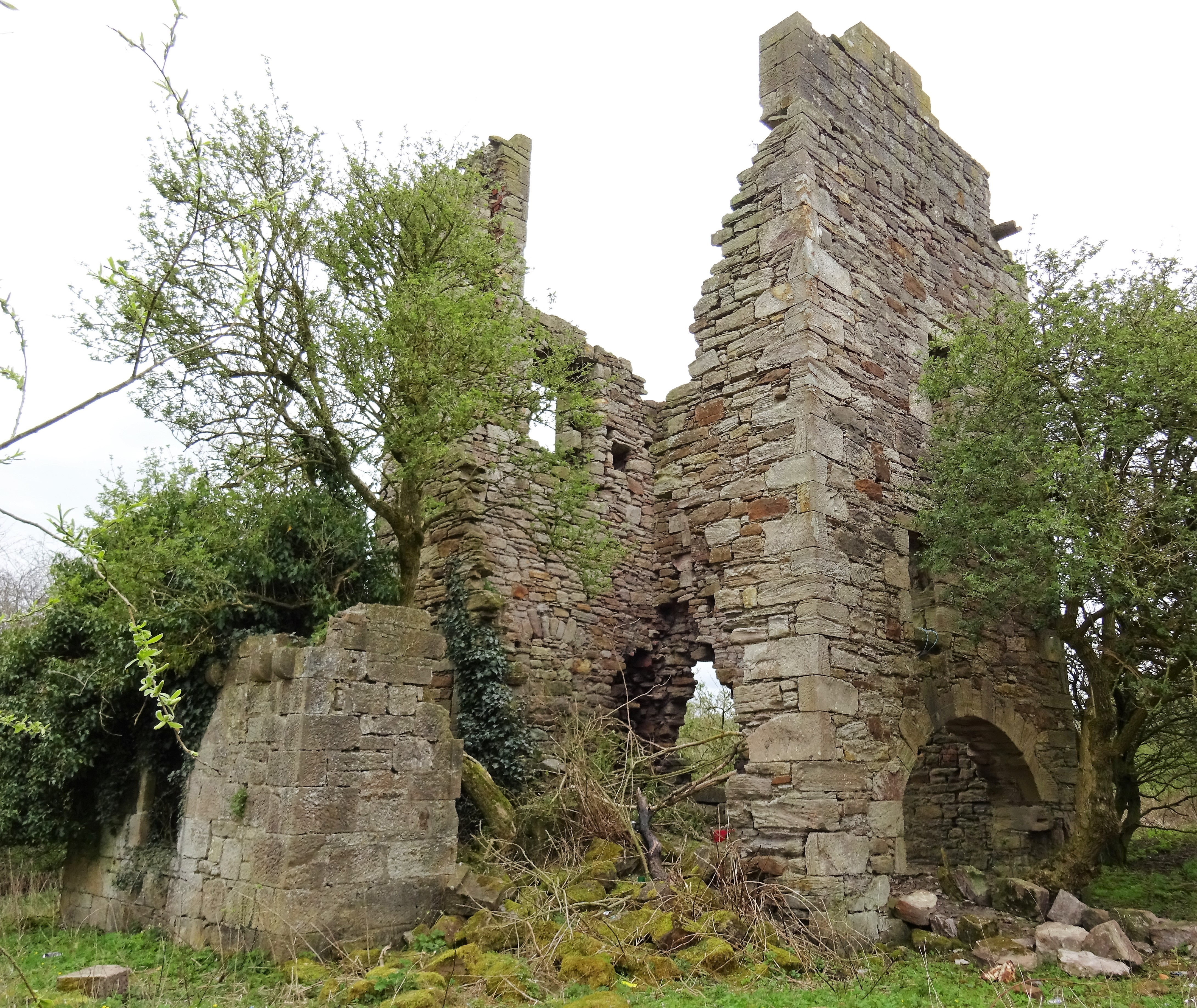 Blacksyke Tower. An old engine house, Caprington, East Ayrshire - detailed view from the west. Side building shown to the west side.